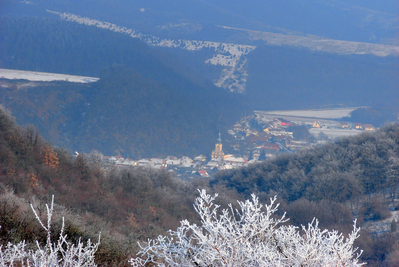 View of Szinpetri